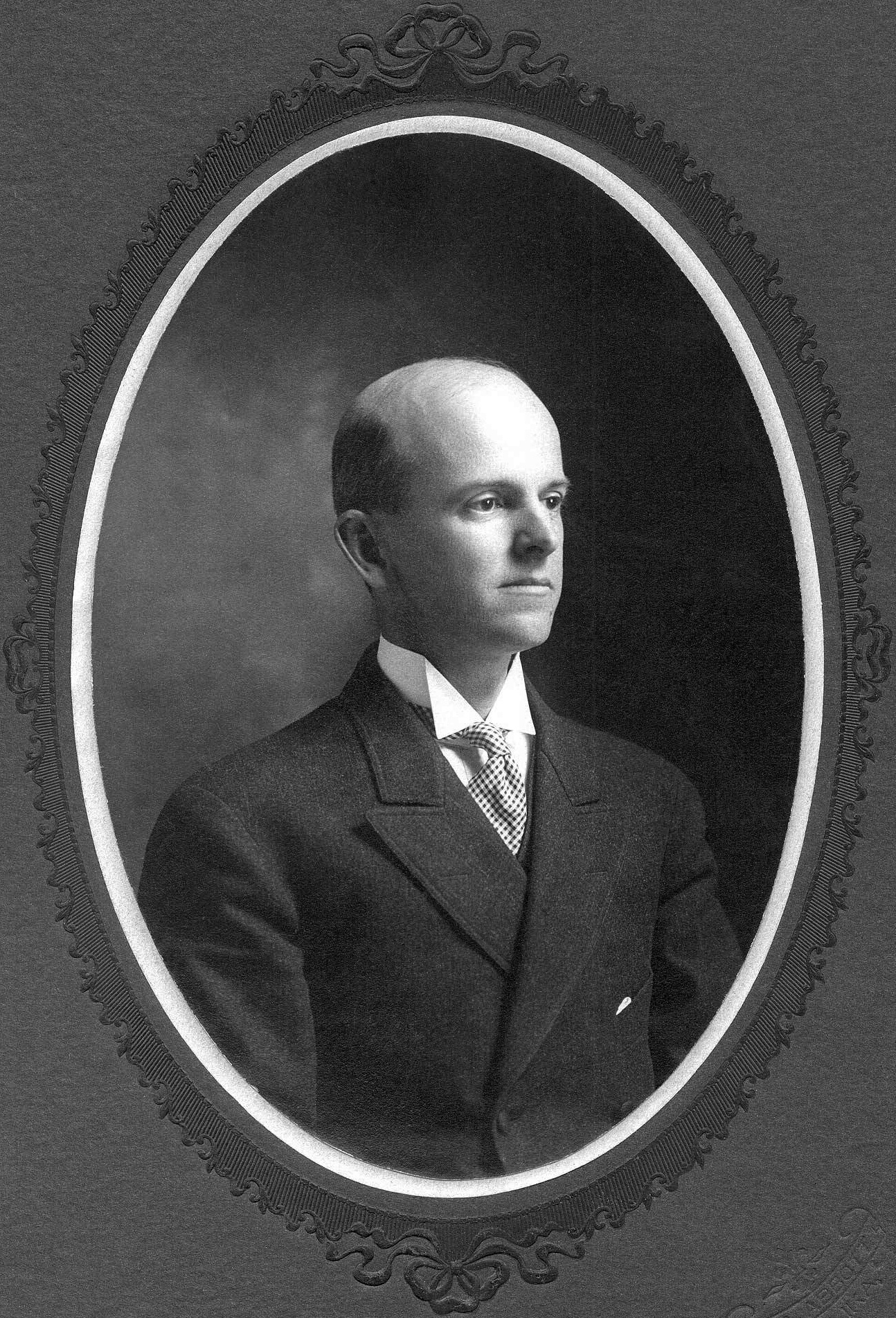 Dr. George Petrie was a member of the faculty at the Agricultural and Mechanical College of Alabama and the Alabama Polytechnic Institute (both now Auburn University). He was the Professor of History and Modern Languages from 1887-1889, Professor of History and Latin from 1891-1908, Head of the History Department, and Dean of the Graduate School from 1908-1942. This picture was taken in April, 1905 and was used in the 1909 Glomerata.[1]